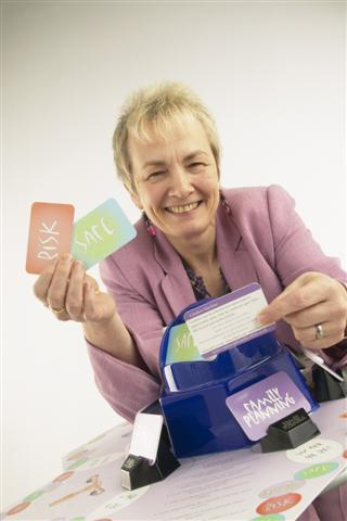 Salford University lecturer Barbara Hastings-Asatourian is to launch a taboo-breaking sex education campaign in China in a bid to help reduce the millions of abortions carried out each year as a result of lack of access to sex education in schools. To request this photo in high resolution, email its name to with your intended usage. Or for more University of Salford images, visit Licensing